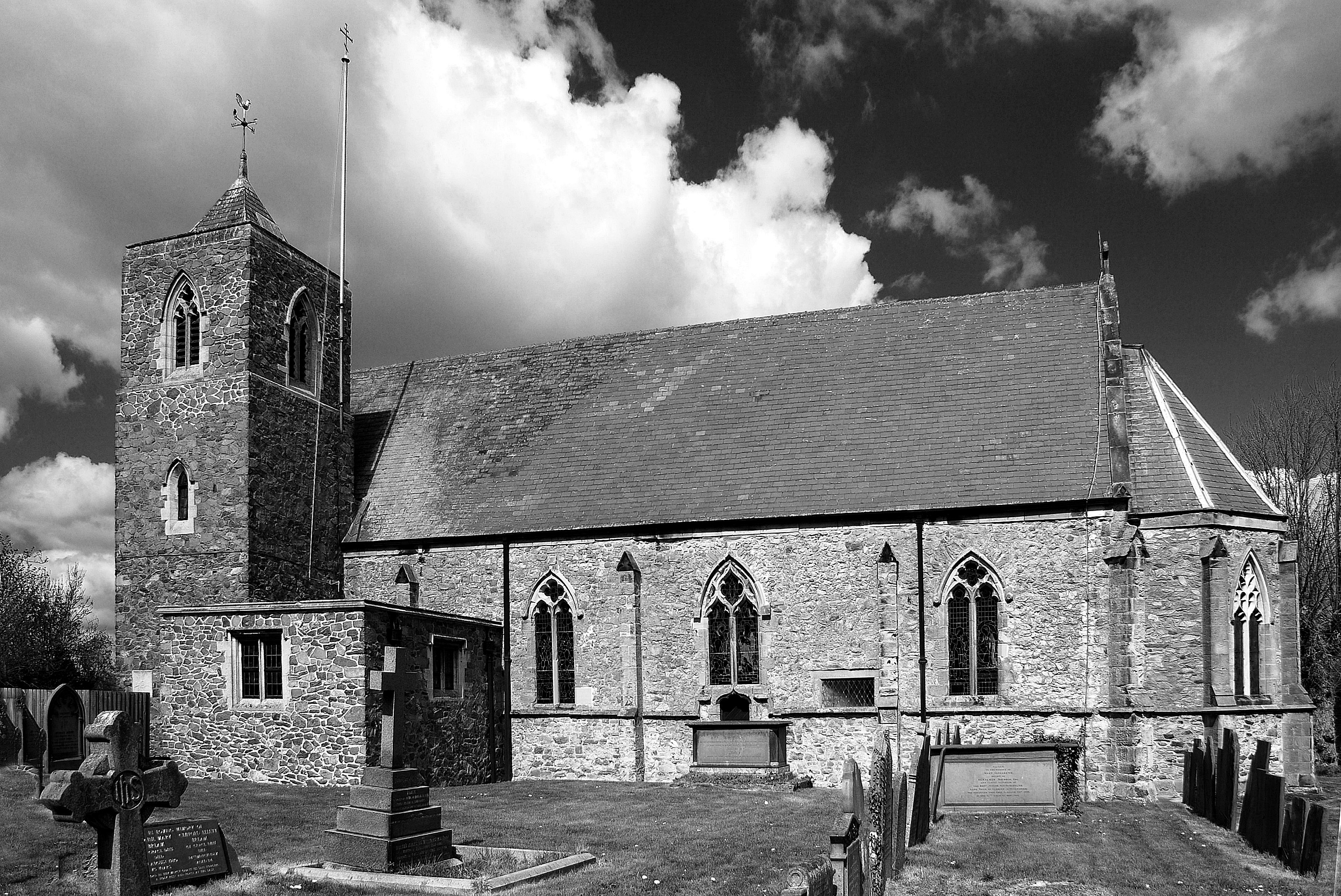 Church Of St Mary Wikidata has entry Q17542510 with data related to this item.